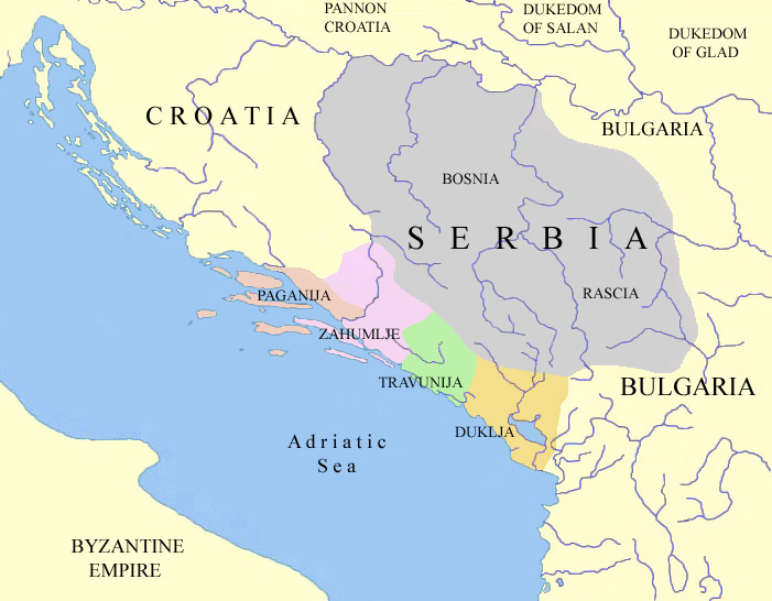 Map of the Serbian lands in colour